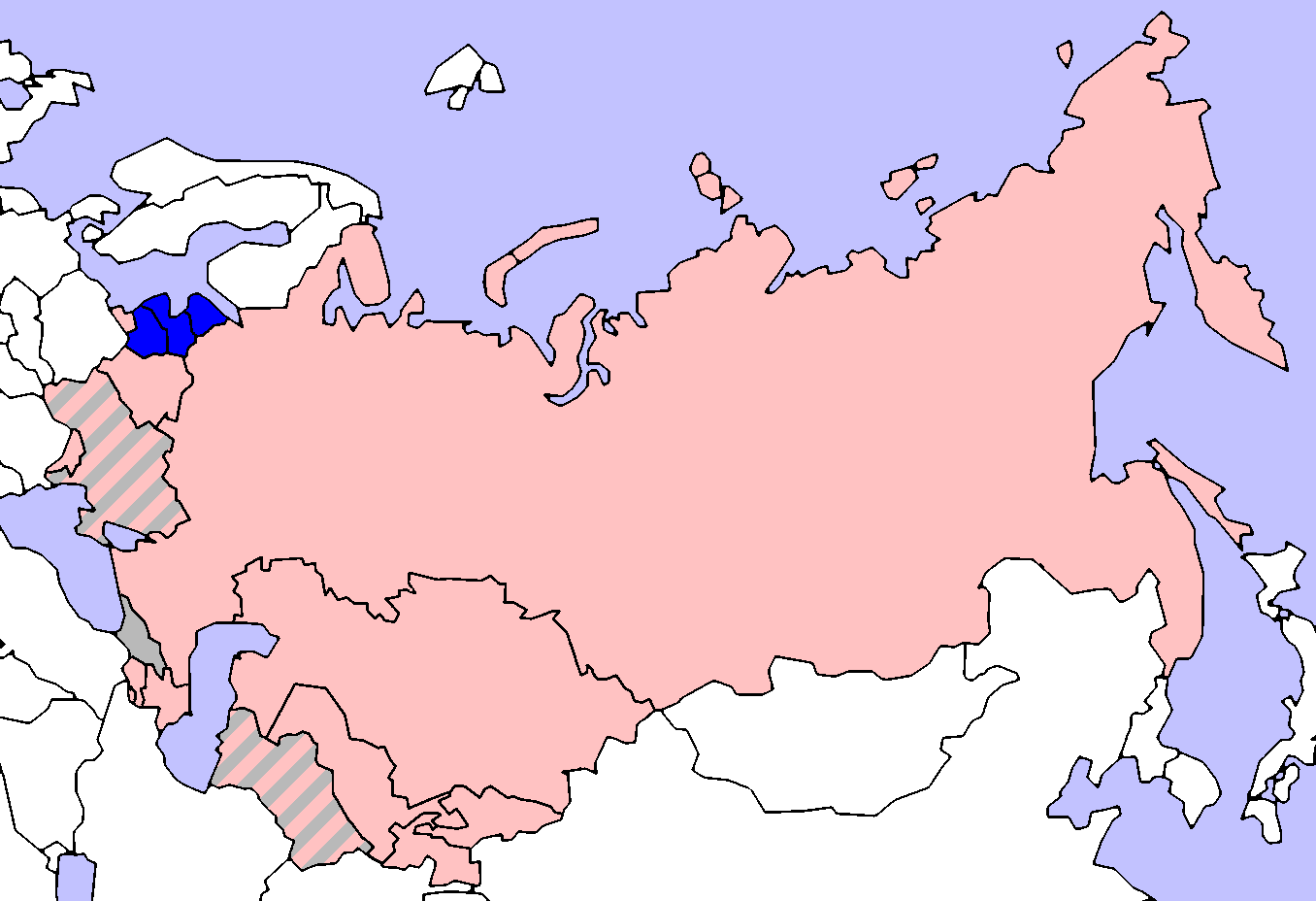 based on Image:CSTO GUUAM in CIS Map.png Pink: CIS member. Blue: NATO and EU member. Pink and Gray: Associate member of CIS but not a member of neither NATO nor EU. Gray: Not a member of neither CIS, NATO nor EU.